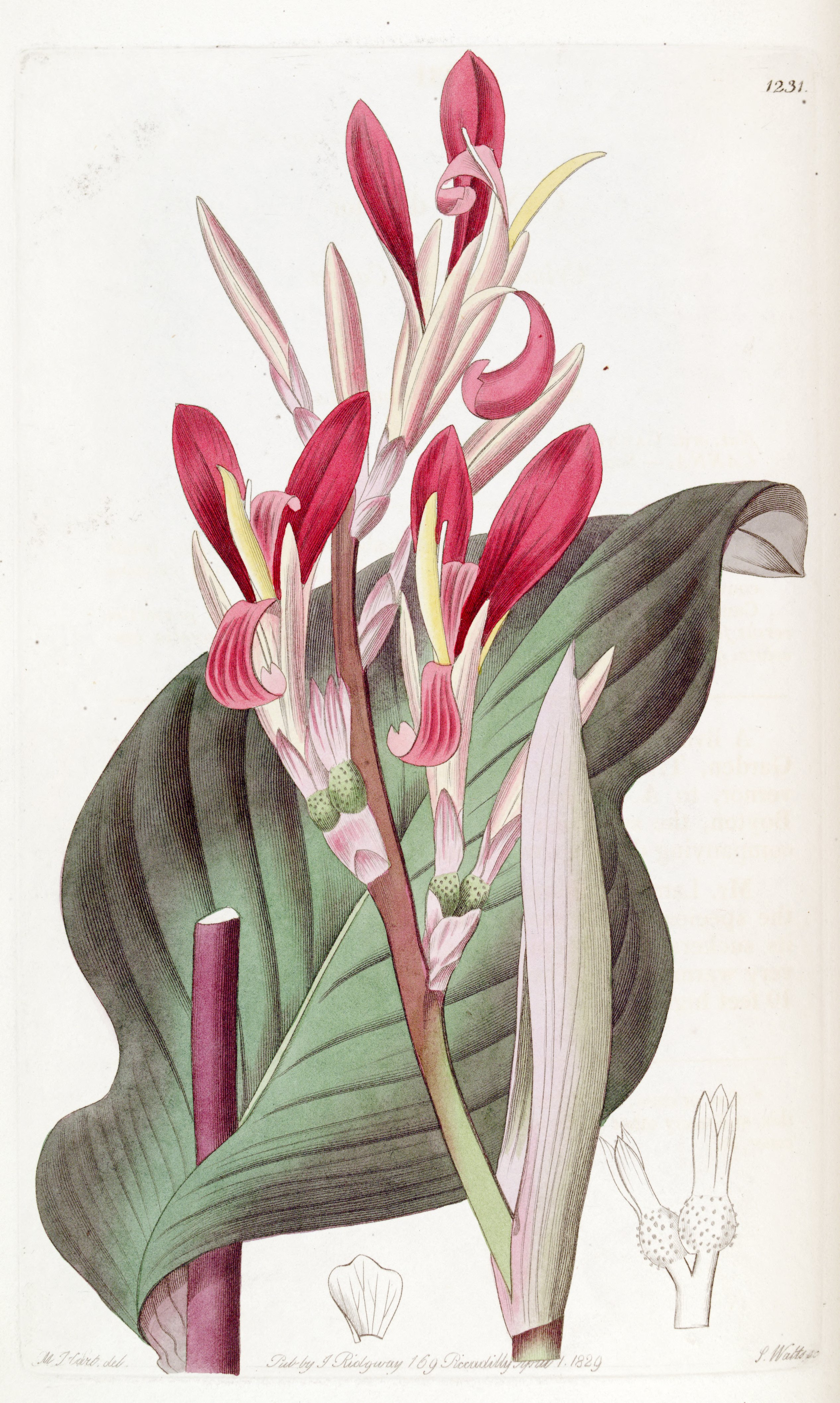 Canna indica L. [as Canna discolor Lindl.] Edwards’s Botanical Register, vol. 15: t. 1231 (1829) [M. Hart]